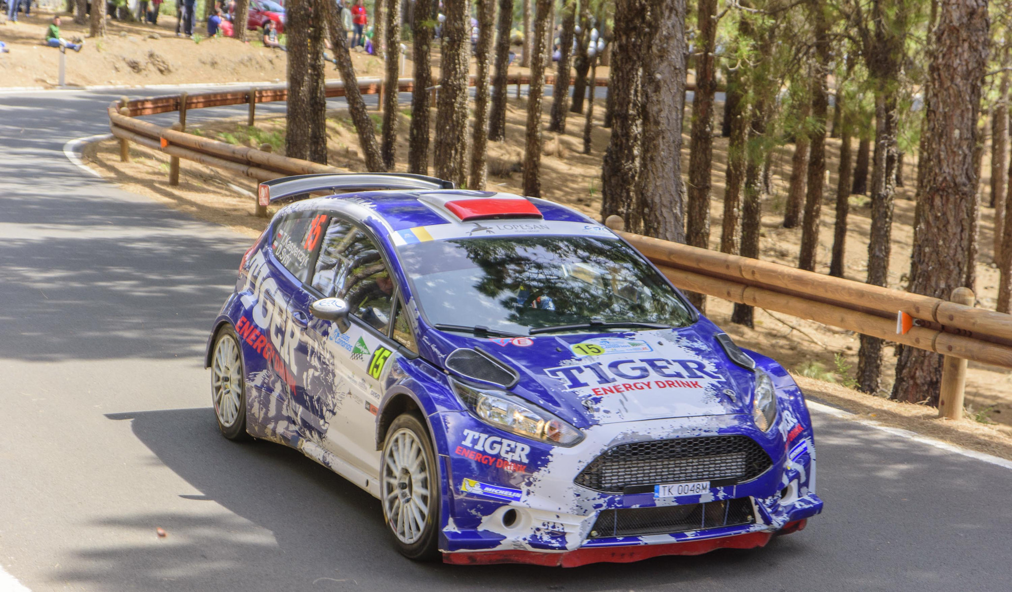 500px provided description: Rally El Corte Ingles 2016 [#Canarias ,#Rally ,#Rally el corte ingles 2016]